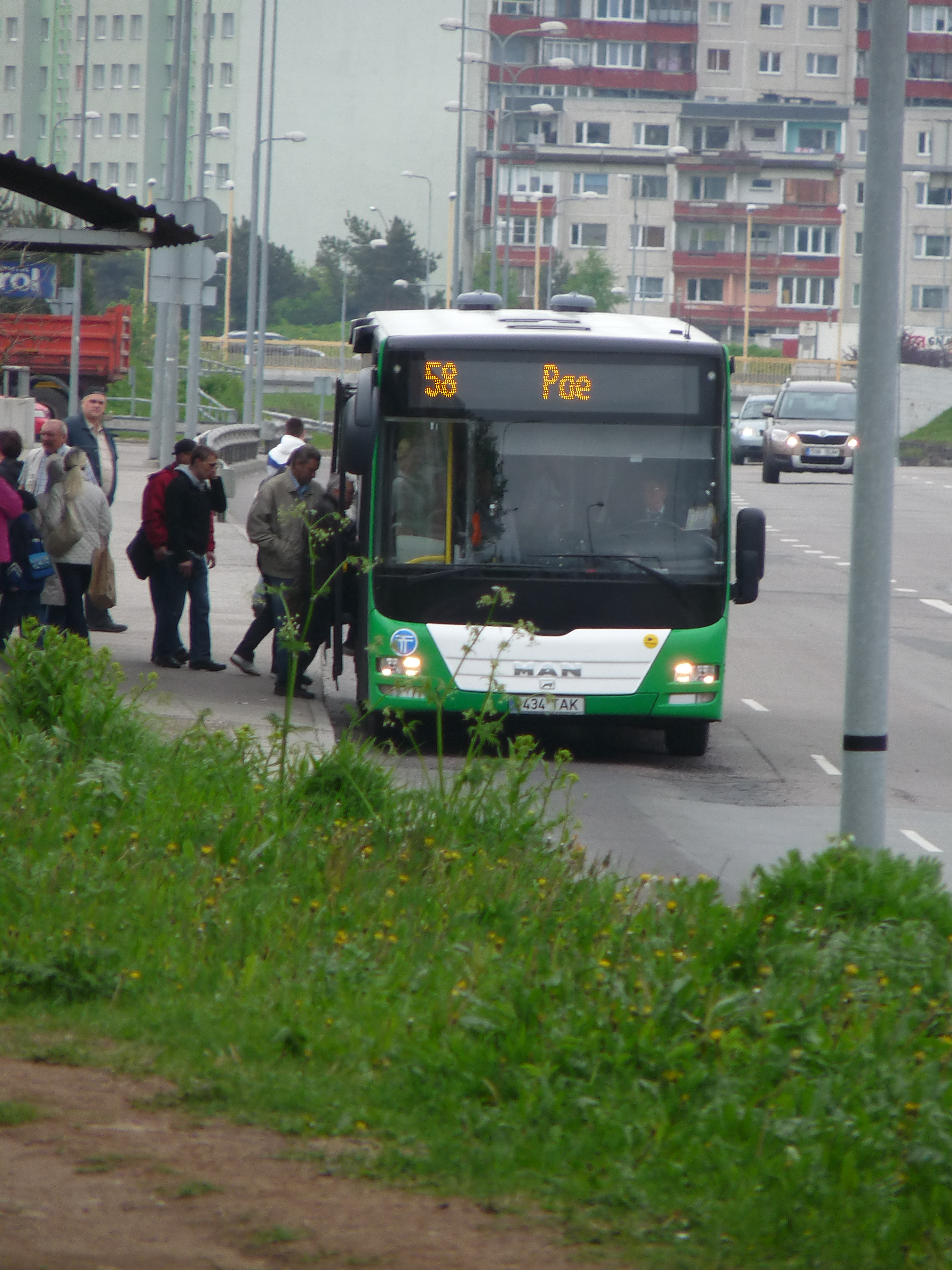 MAN bus in Tallinn, Estonia